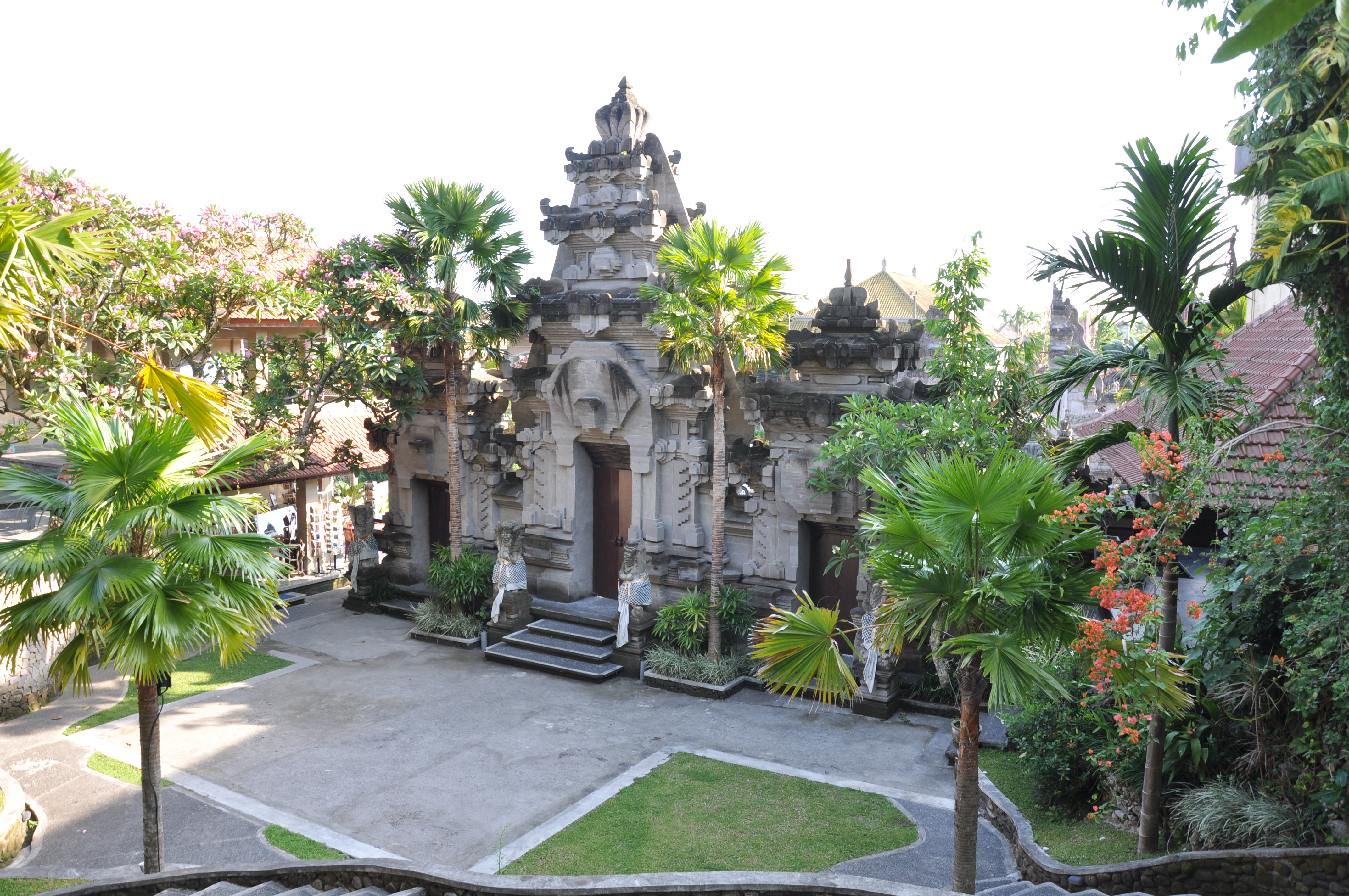 The Puri Lukisan Museum (Indonesian: Museum Puri Lukisan) is the oldest art museum in Bali which specialize in modern traditional Balinese paintings and wood carvings. The museum is located in Ubud, Bali, Indonesia. It is home to the finest collection of modern traditional Balinese painting and wood carving on the island, spanning from the pre-Independence war (1930–1945) to the post-Independence war (1945 – present) era. The collection includes important examples of all of the artistic styles in Bali including the Sanur, Batuan, Ubud, Young Artist and Keliki schools